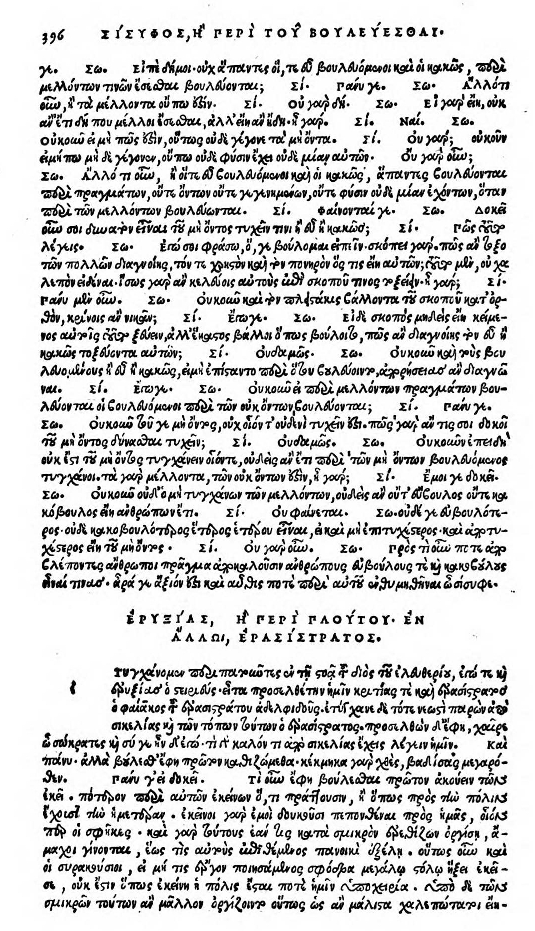 Eryxias beginning. Editio princeps, Venice 1513.